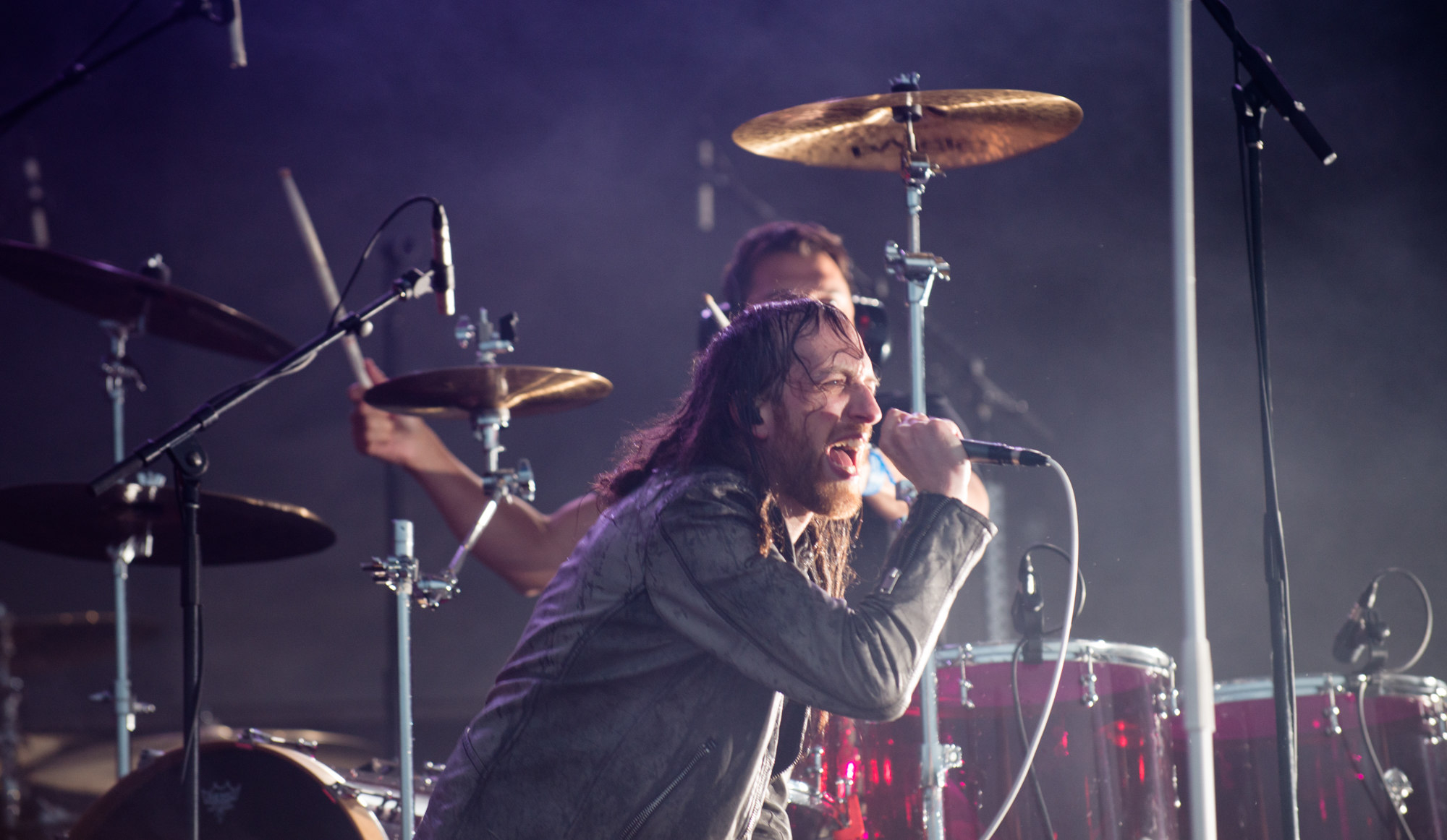 Deadly Apples at Rockfest 2018